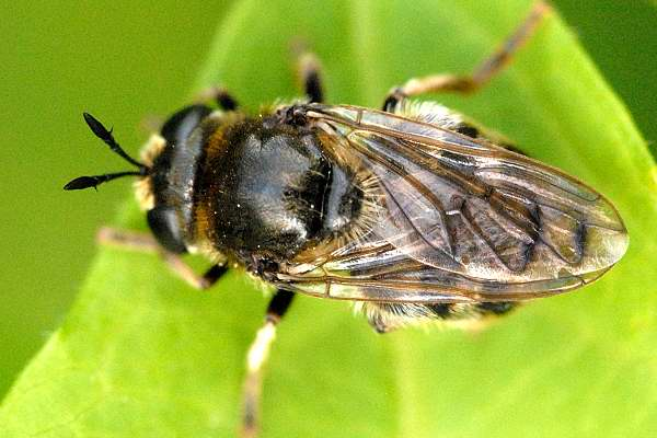 Microdon analis from Commanster, Belgian High Ardennes .